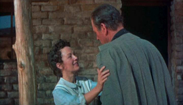 The Searchers is a 1956 Western film directed by John Ford which tells the story of a man who spends years looking for his niece who was taken by Indians. This image is a screenshot from a public domain trailer for the film. Trailers for movies released before 1964 are in the Public Domain because they were never separately copyrighted.